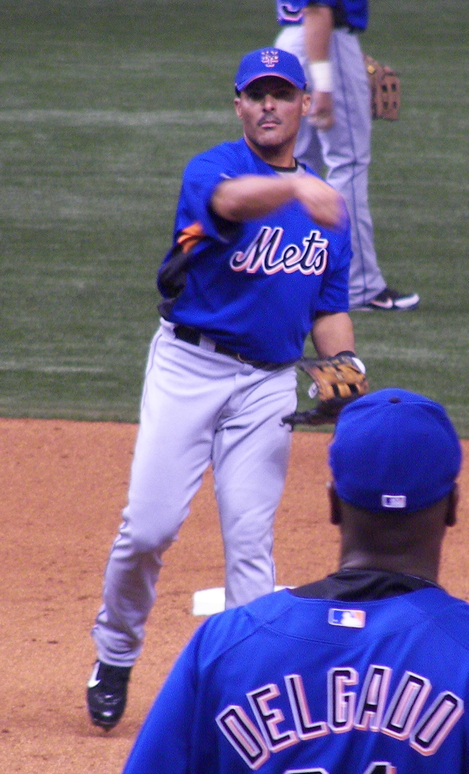 New York Mets second baseman José Valentín during a Mets/Devil Rays spring training game at Tropicana Field in St. Petersburg, Florida.